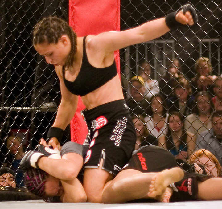 Gina Carano in full mount position performing ground and pound.